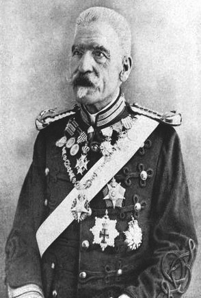 GENERAL JOSÉ CELESTINO DA SILVA (1849-1911), Portuguese Governor of Timor, more informations under